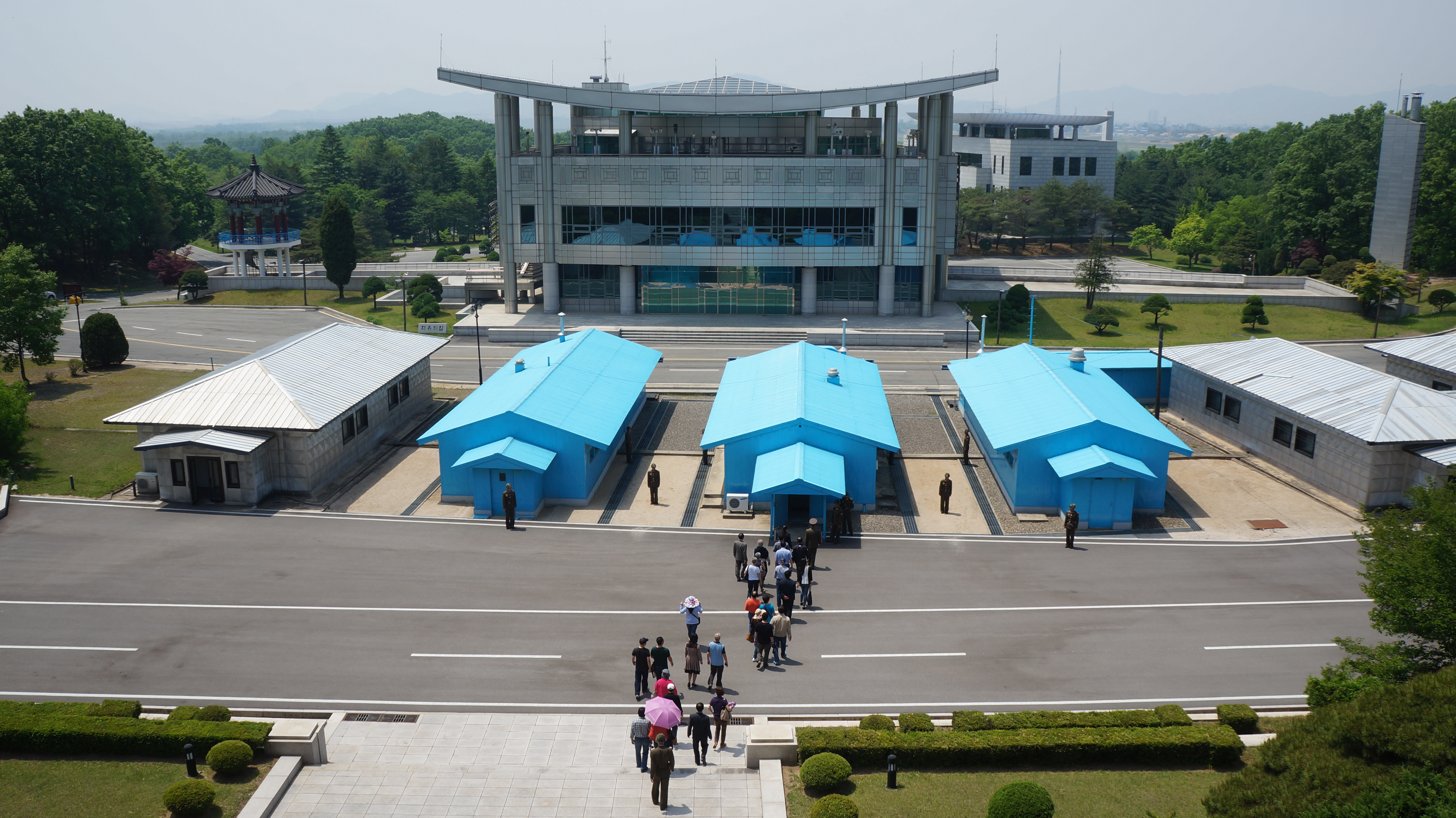 DMZ from North Korea side